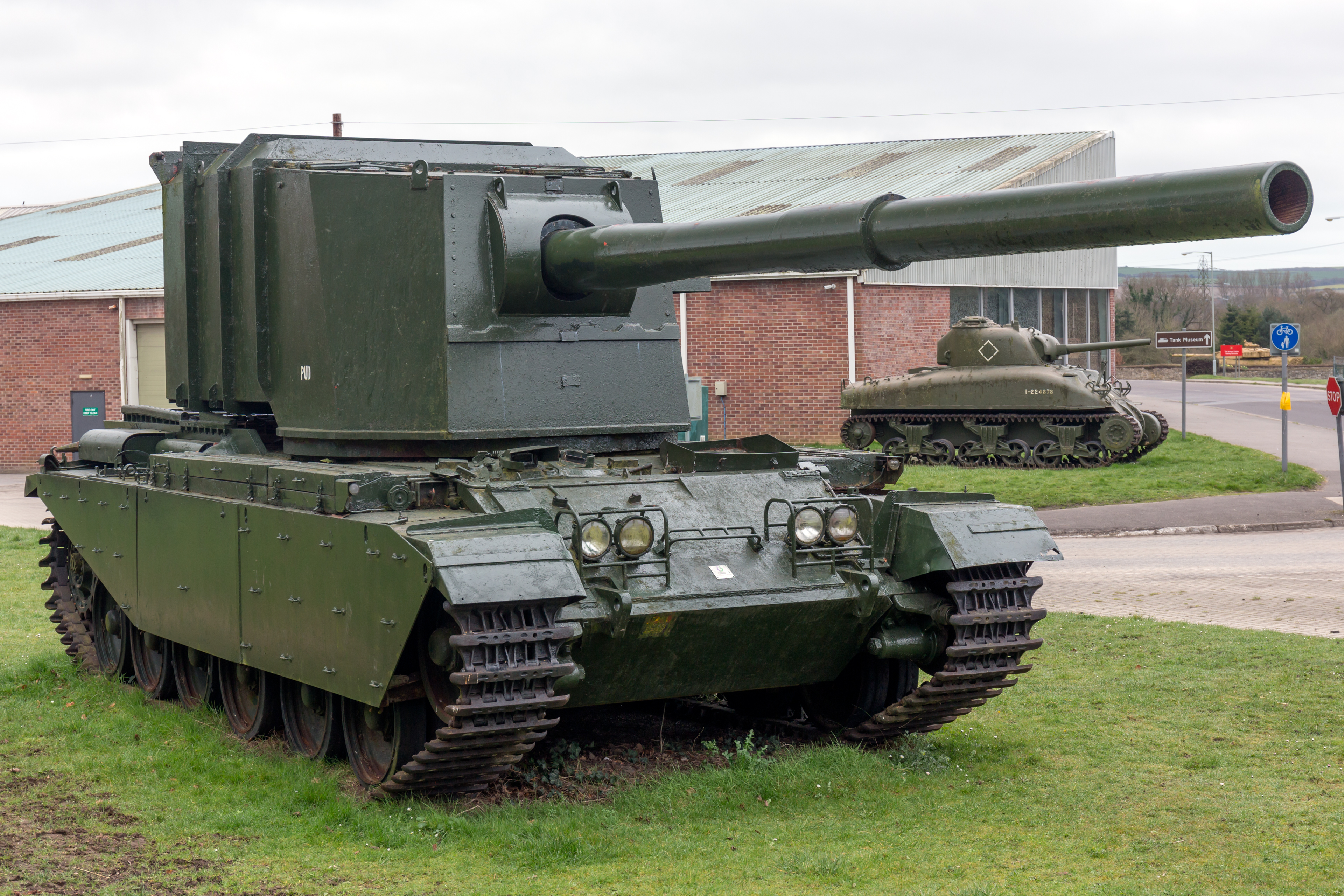 Bovington Tank Museum: FV4005